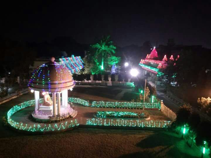 Lighting at BRKM during annual festival